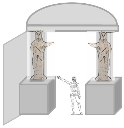 The entrance with the Karyatids of Kasta tomb. A human figure is also shown to indicate the scale